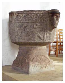 From Gammel Haderslev Church Photo by author Jens Christensen